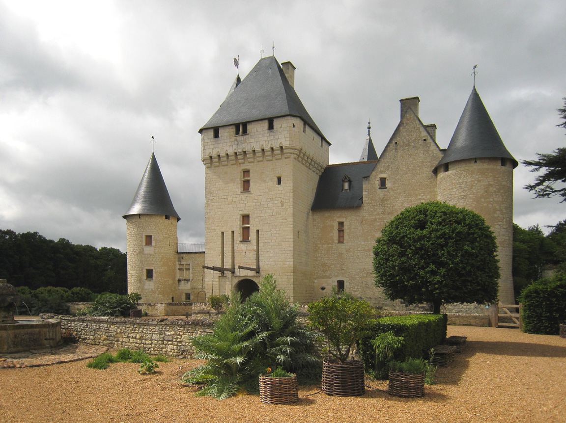 Former medieval Castle Le Rivau near the Loire river in France